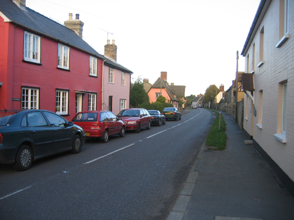 Abbey Street, Ickleton, Cambridgeshire. View northesat towards the village centre, with the Old Bakery on the left.